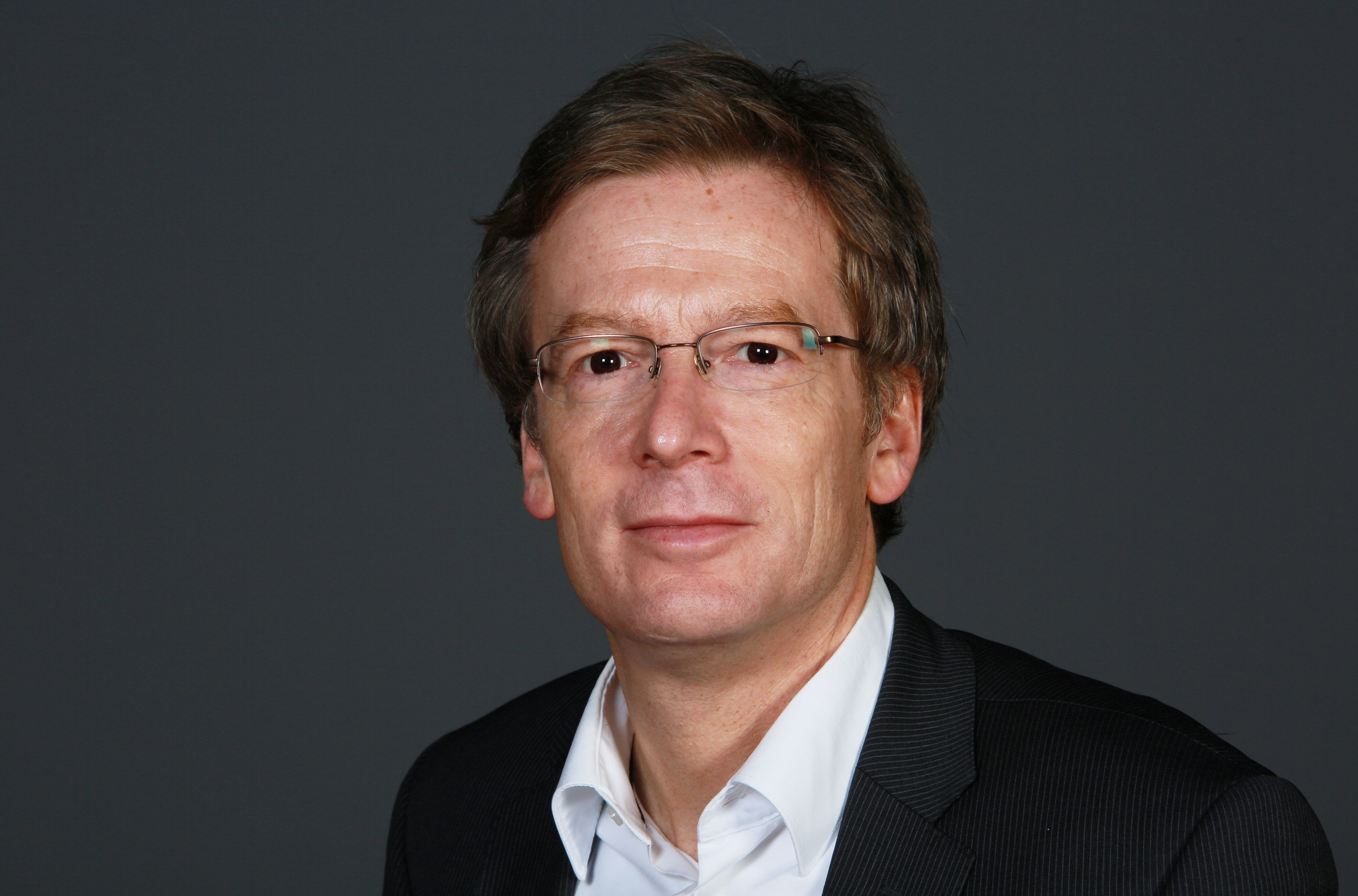 Dirk Kienscherf (SPD), member of the Hamburg Parliament and Group leader of the SPD faction in the Hamburg Parliament